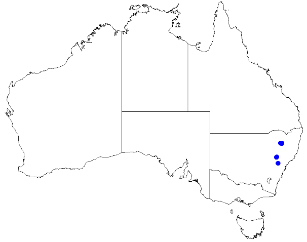 Boronia ruppii downloaded from Australasian Virtual Herbarium 10 April 2019 using This download included all the environmental overlay fields and ALA's data checking fields including "cultivated / escapee", "outside expert range for species", "latitude is negated", "coordinates are transposed", "taxon misidentified", "habitat incorrect for species", and "suspected outlier" (711 fields). Deleting occurrences for which any of the above were true, 46 specimens with coordinates were deleted.